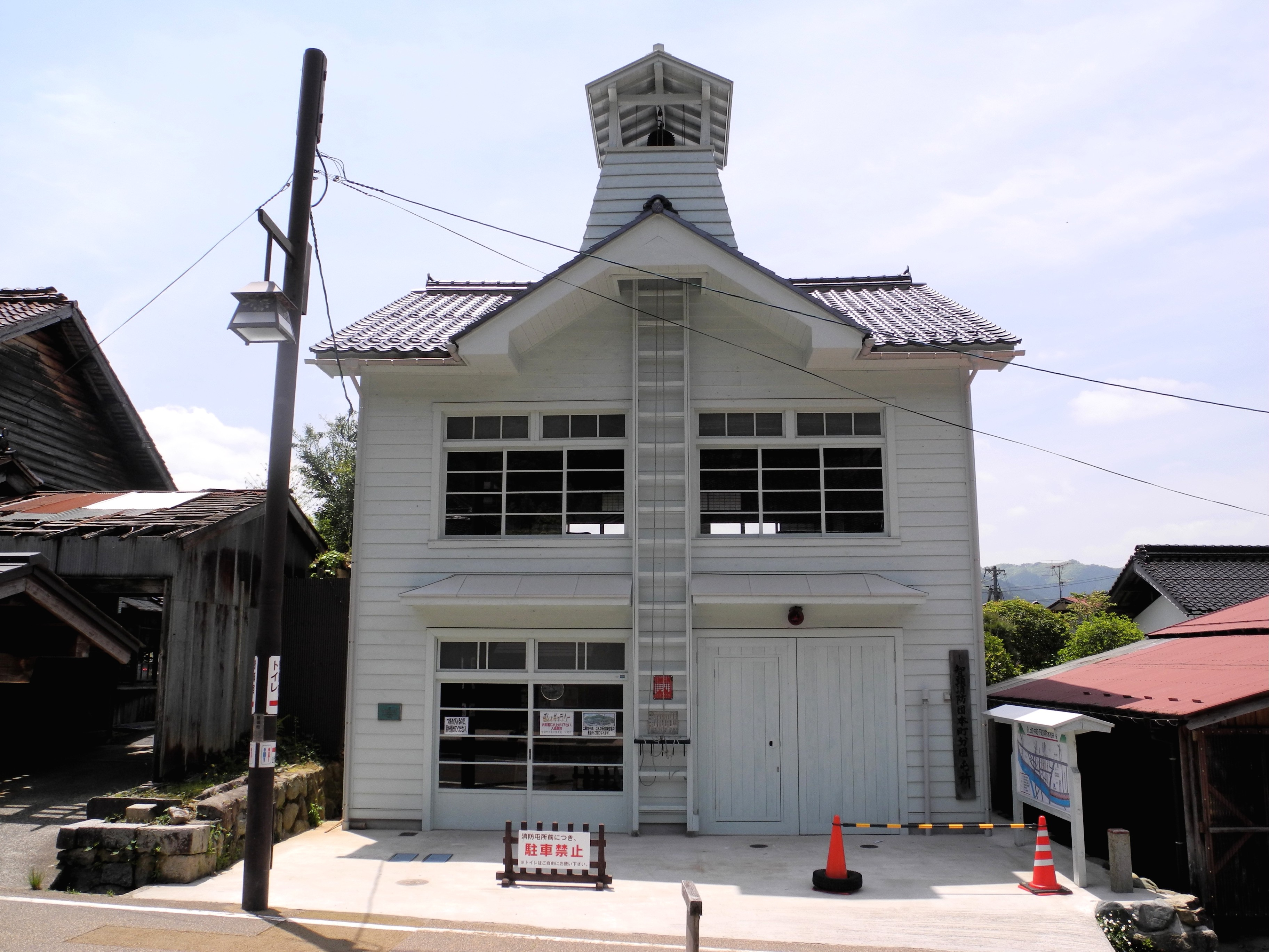 Chizu fire brigade Hommachi branch garrison, Chizu, Tottori, Japan